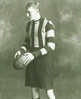 Photograph of Harry Curtis from 1914-1923